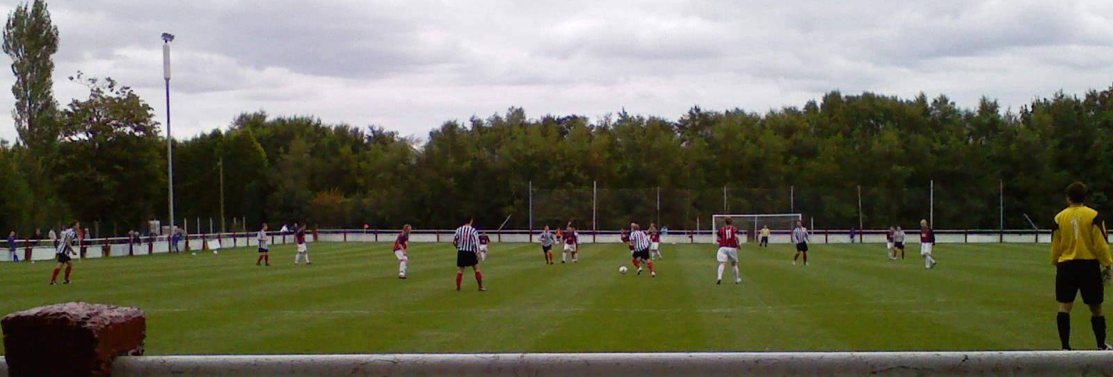 Pelsall Villa F.C. taking on Quorn F.C. in the FA Cup preliminary round, 1 September 2007. Photographed by myself